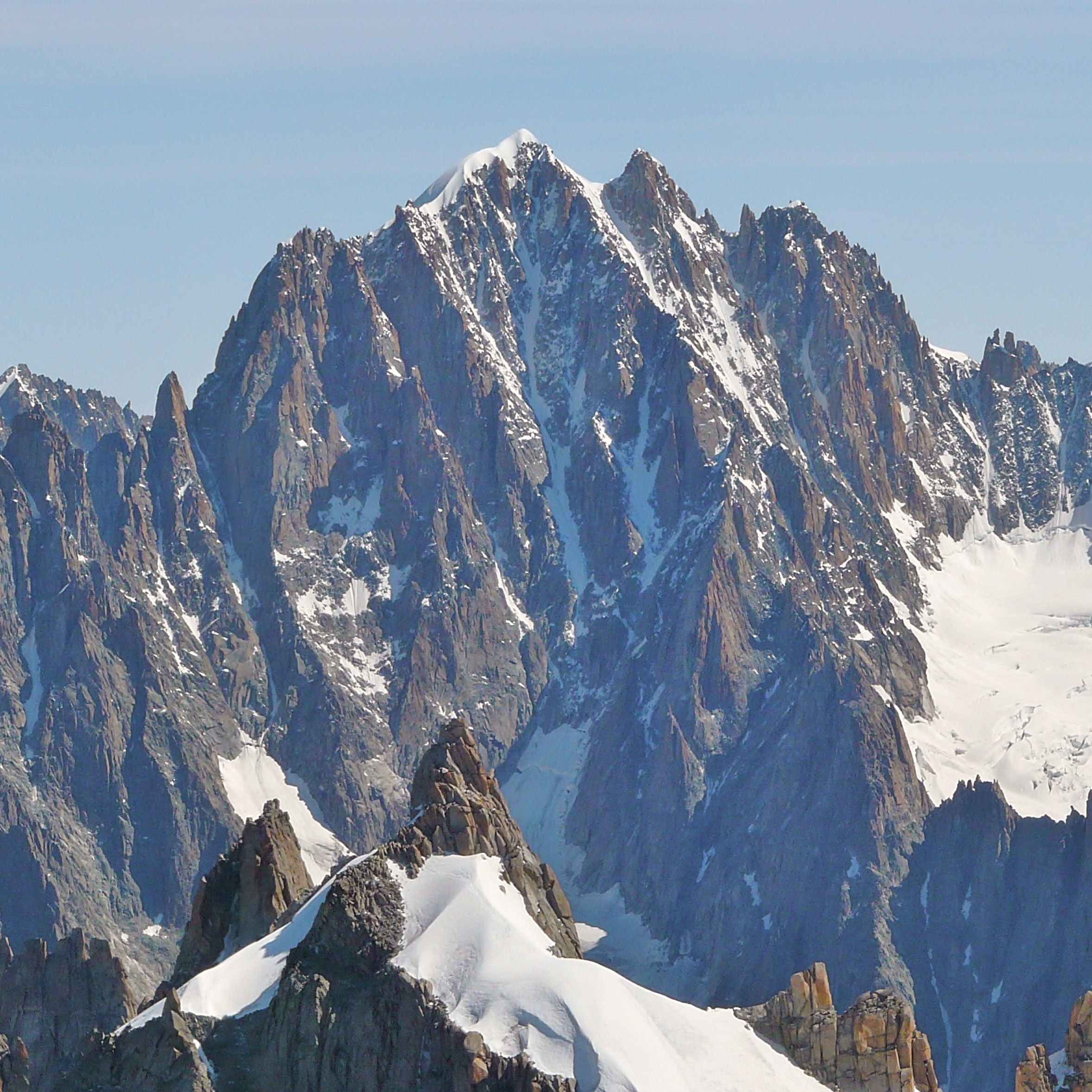 Aiguille Verte (4,122 m) as seen from Aiguille du Midi (3,842 m) in 2009 July.